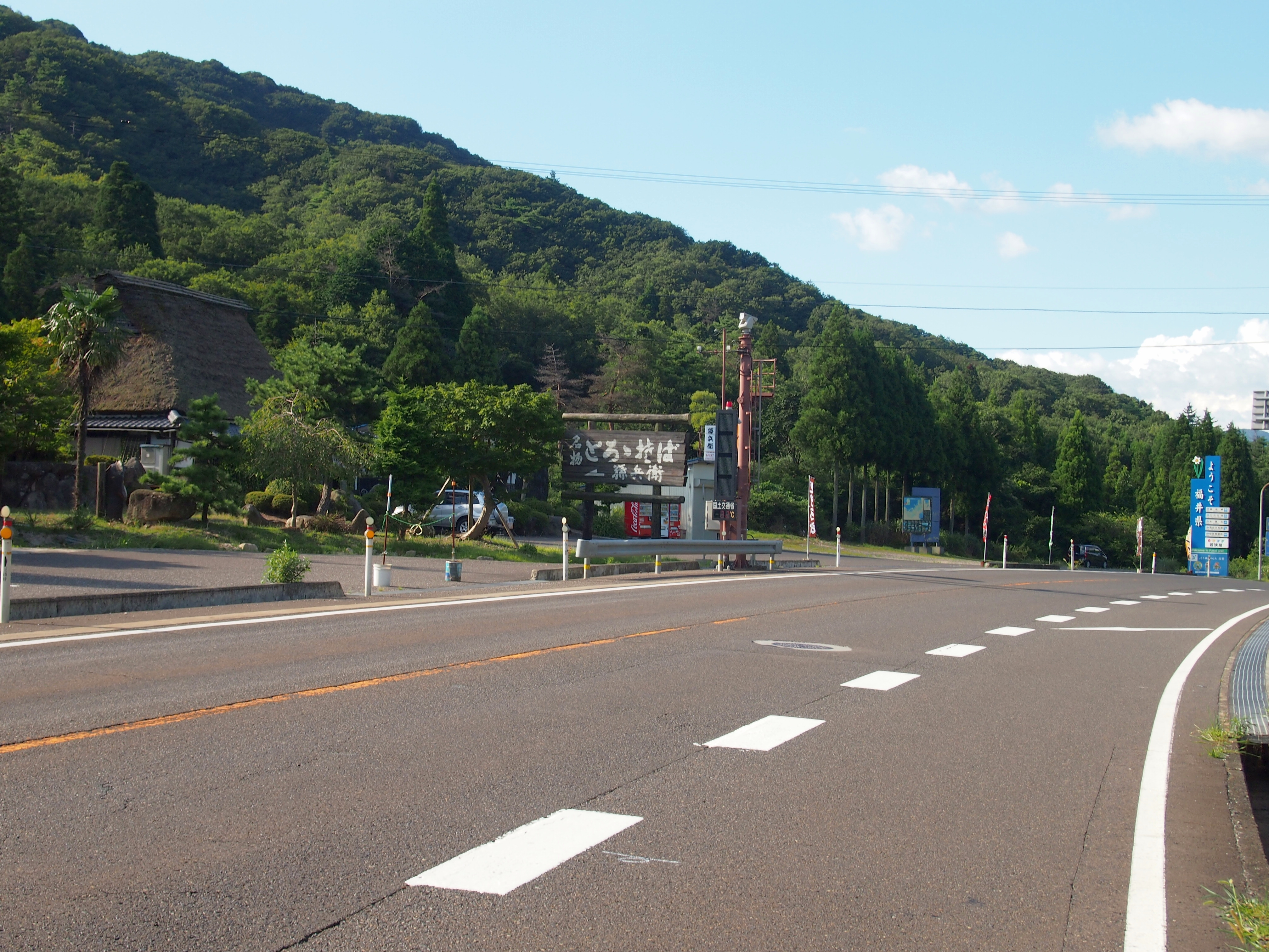 Shindouno-goe is the pass of the Fukui‐Shiga border in National Route 8.